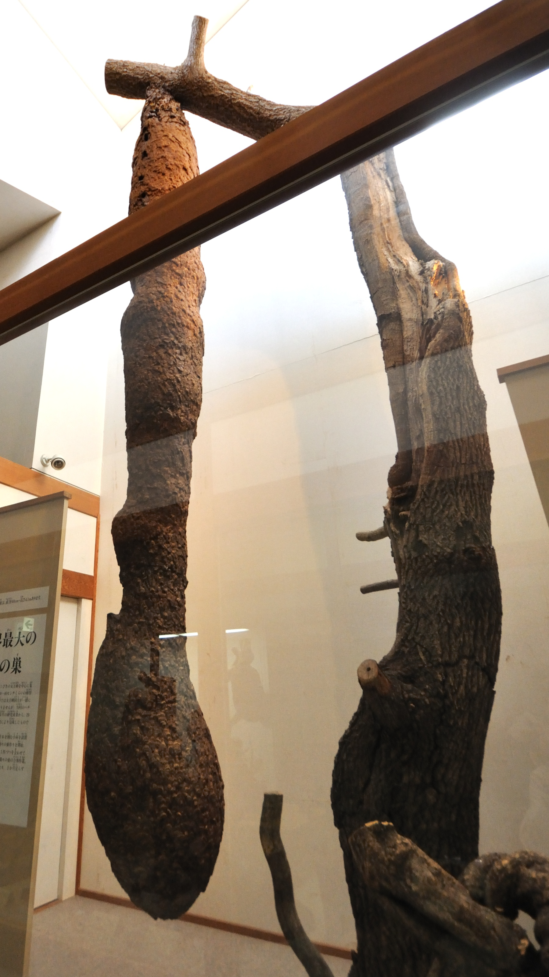 Photograph of long hornet's nest by Bee Museum, is museum in Nakagawa Village, Nagano Prefecture, this photo date is November 8, 2009.